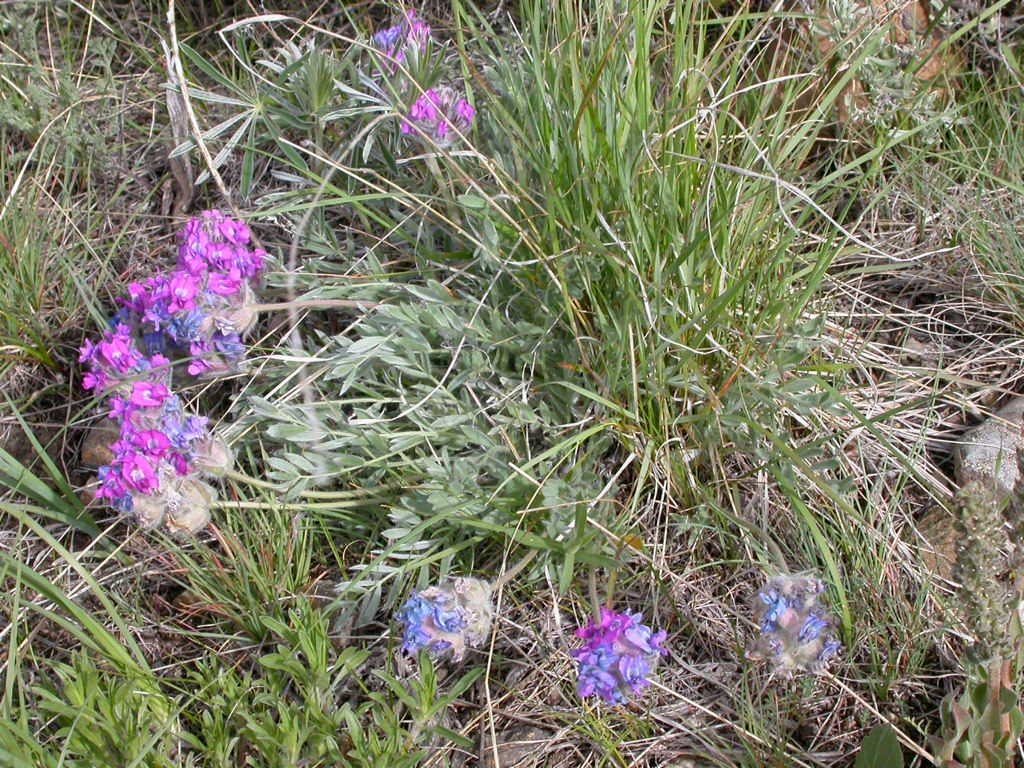 The calyx inflates as the fruit begins to mature.